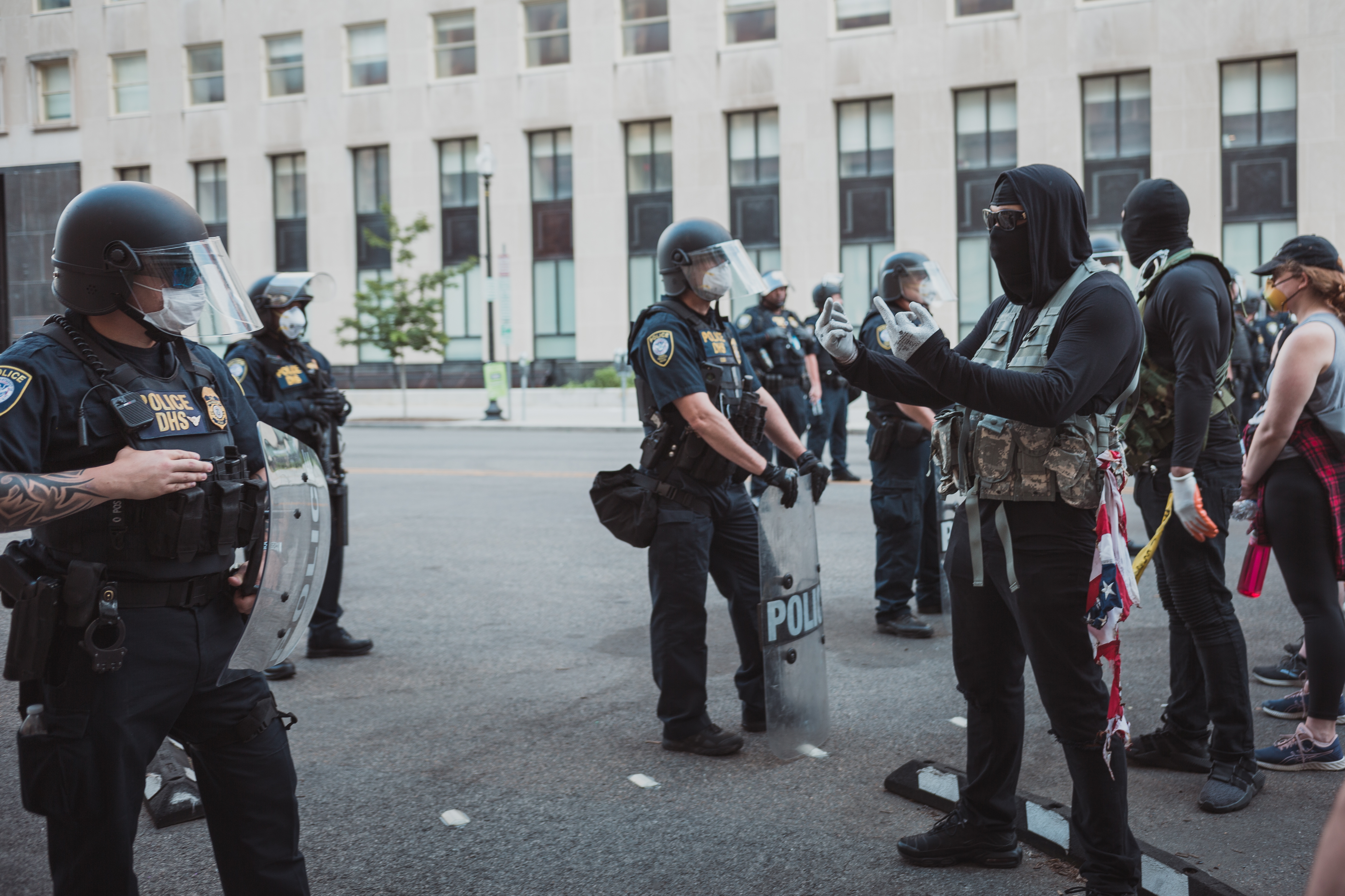 Photo by Yash Mori, 06.02.20